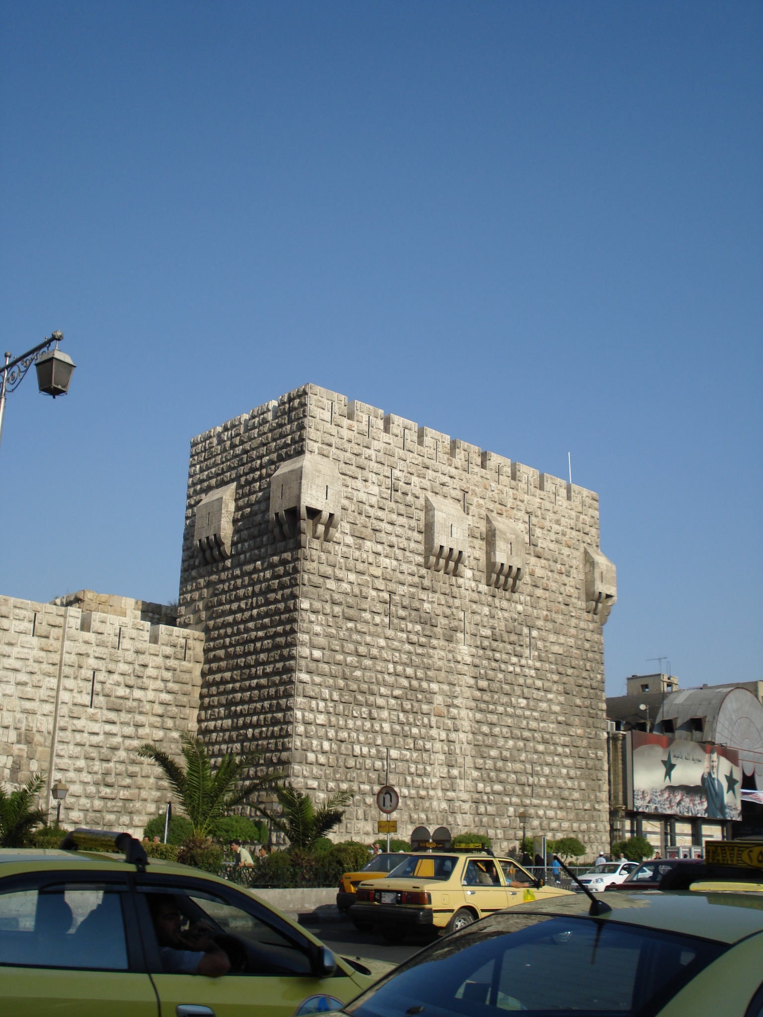 One of Damascus citadel towers in the North western part of old Damascus